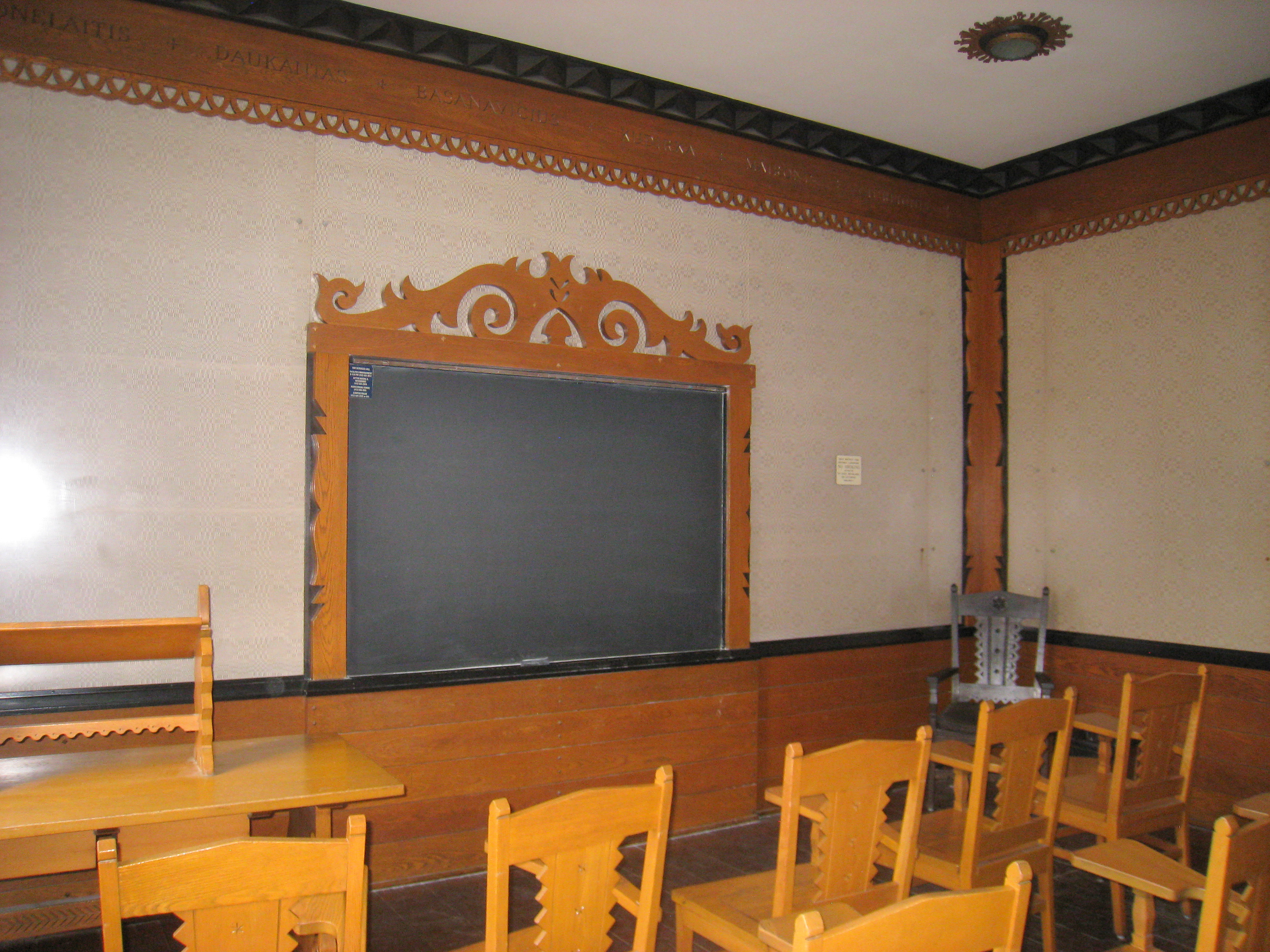 Lithuanian Room, Cathedral of Learning, University of Pittsburgh, Pittsburgh, Pennsylvania, USA.